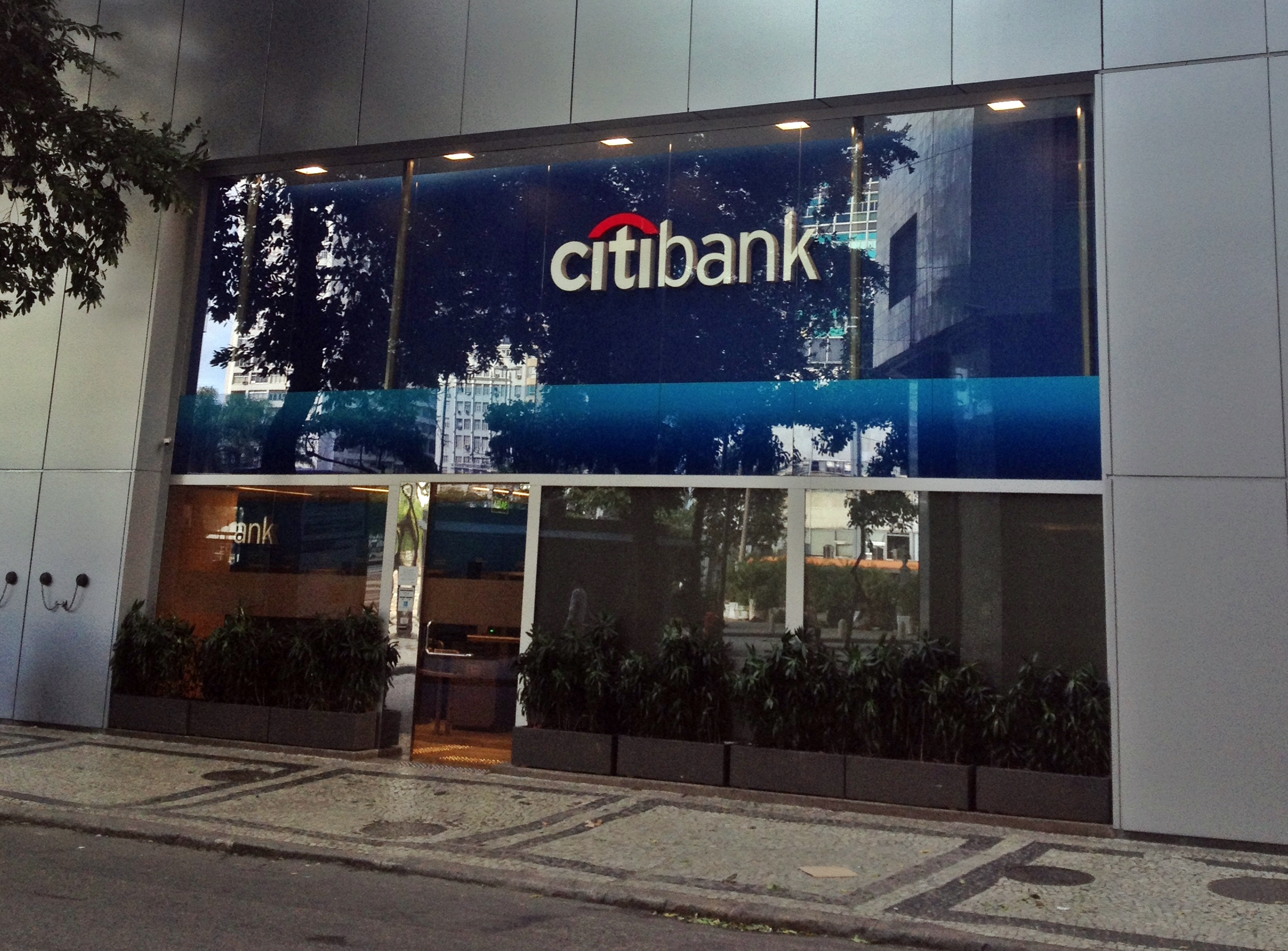 Citibank's main agency in Rio de Janeiro city.